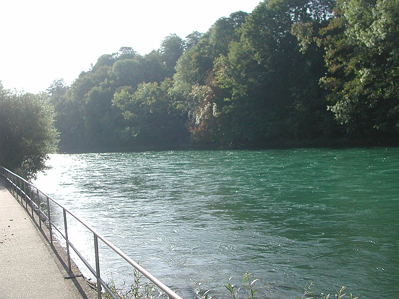 Aare Photo taken in the Tierpark Dählhölzli in Berne Source: photo uploaded by User:RicciSpeziari. Photographer: Riccardo Speziari